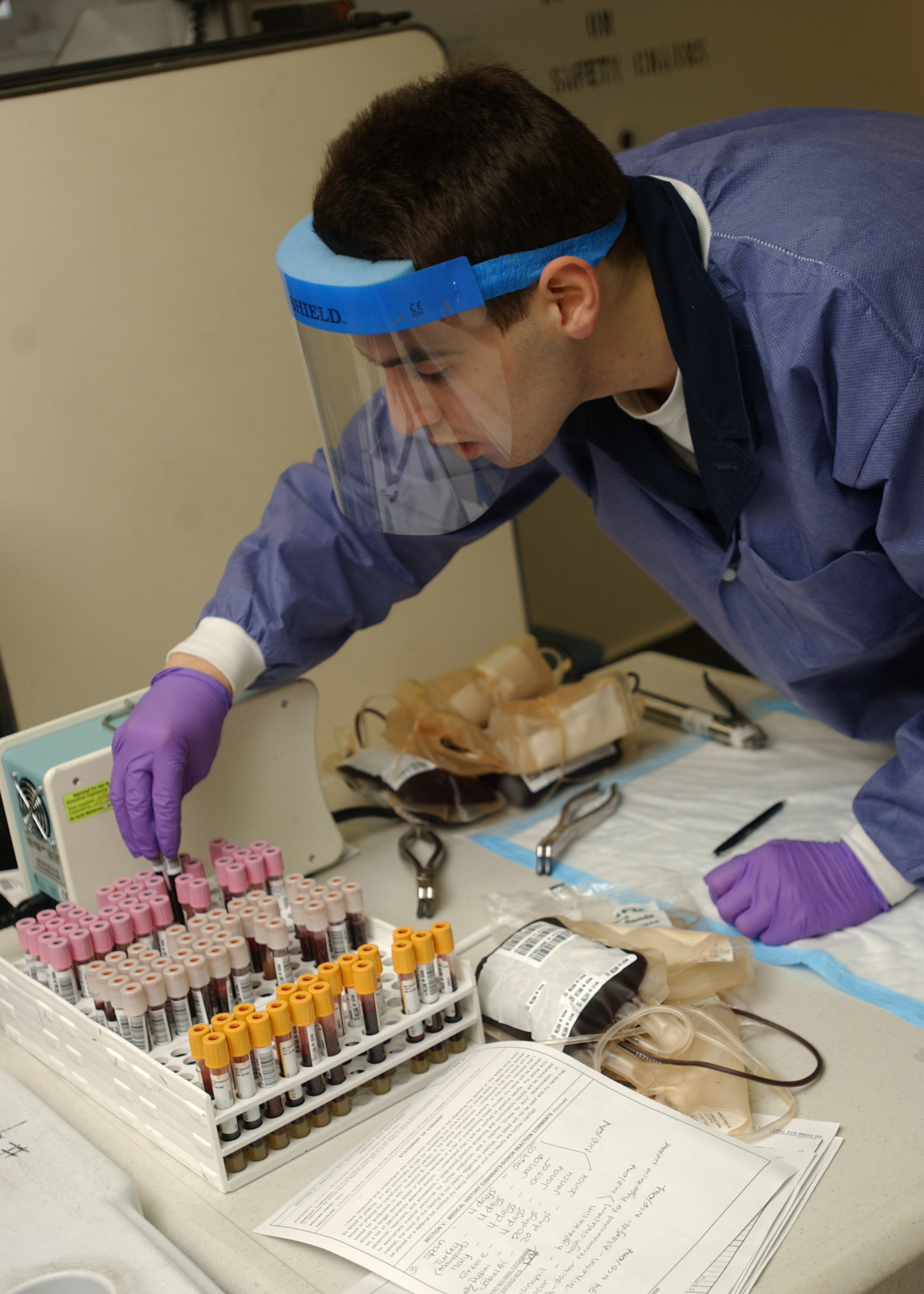 Norfolk, Va. (Nov. 29, 2006) - Hospital Corpsman Seaman Jered Cotshwar sort’s blood samples during a ship's blood drive aboard the Nimitz-class aircraft carrier USS Theodore Roosevelt (CVN 71). U.S. Navy photo by Mass Communication Specialist Seaman William Weinert (RELEASED)